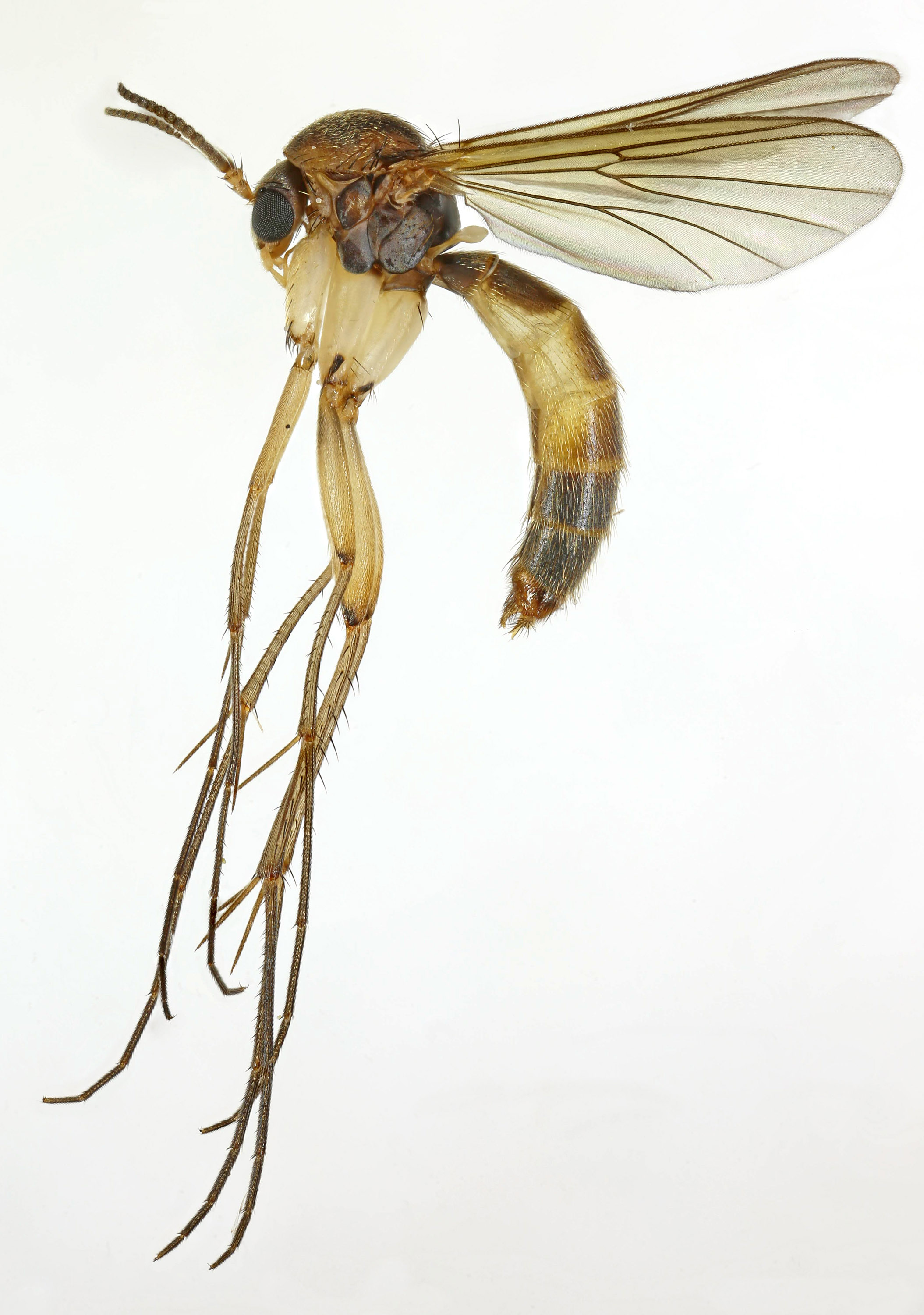 Stigmatomeria crassicornis, Coed Maes-mynan, North Wales, July 2016